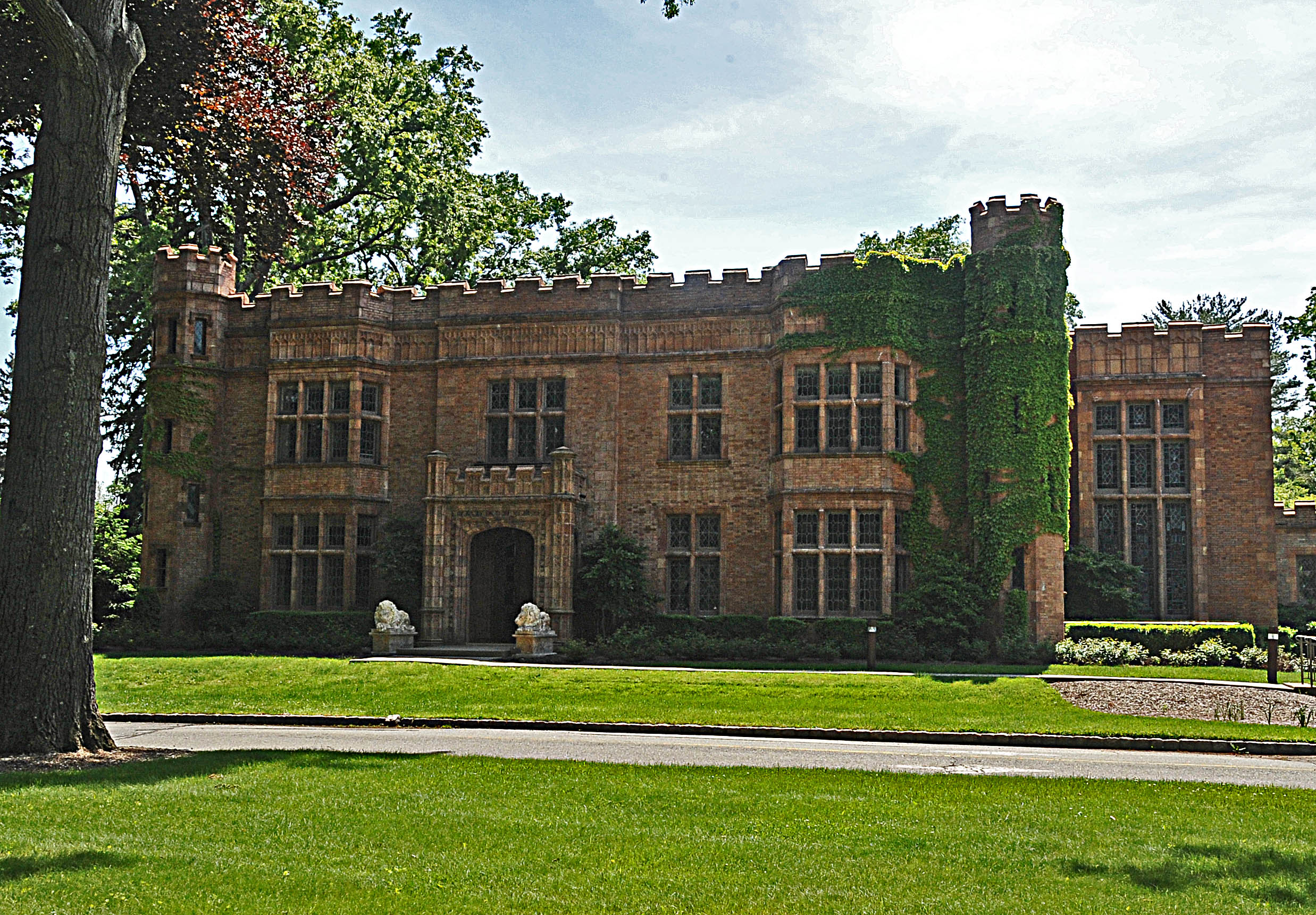 FRONT VIEW; HALL IS ALSO KNOWN AS THE ABBEY AND APPEARS VACANT AND IS FOR SALE